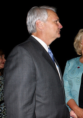 With wife Sindy and Bill Landry